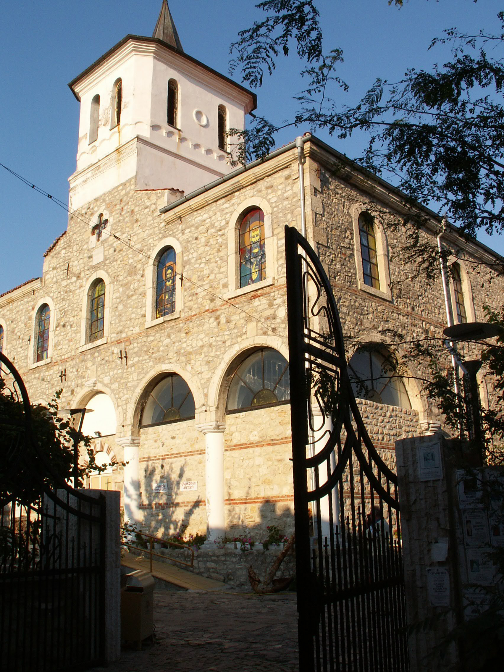 The Orthodox Church in Nesebar